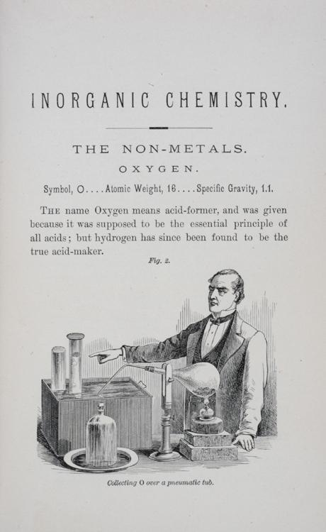 Page 27 from Fourteen weeks in chemistry by Joel Dorman Steele, 1836-1886. New York : A.S. Barnes & Company, 1873.